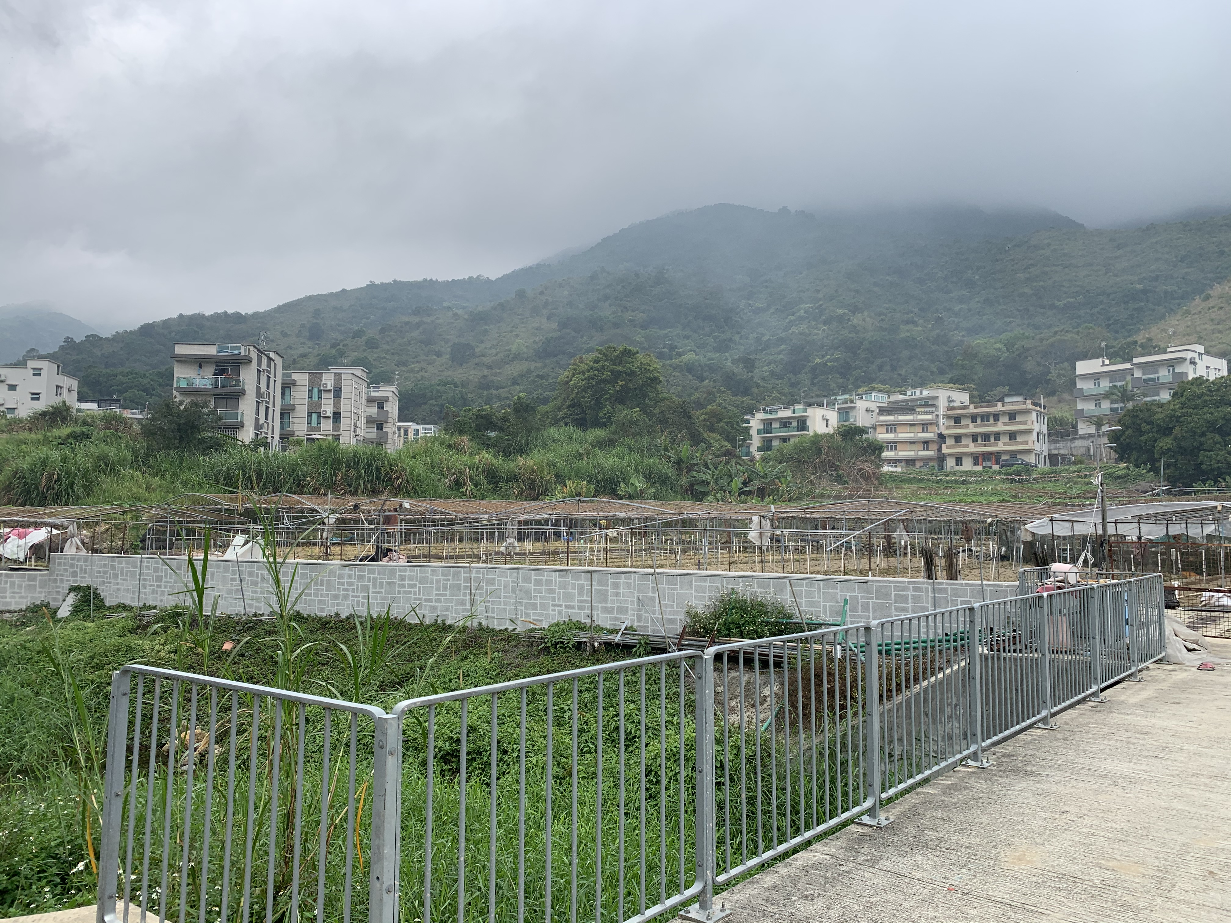 The Lam Tsuen River in Tai Yuen Chei